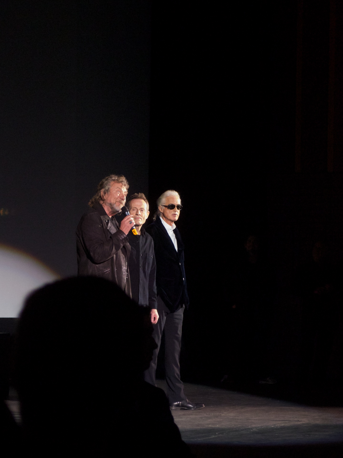 Led Zepplin talking to press about the film Celebration Day at premiere at the Hammersmith Apollo in London, England, United Kingdom